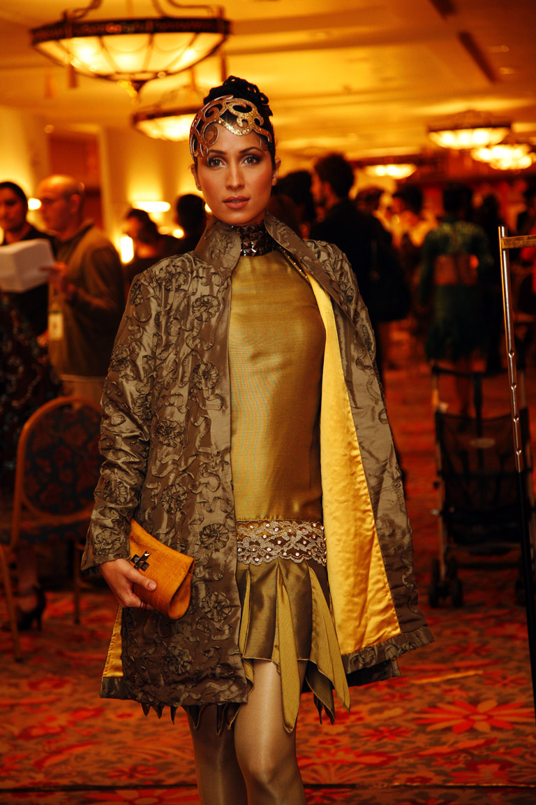 Vaneeza Ahmad at the after party for the Lux Style Awards 2007.